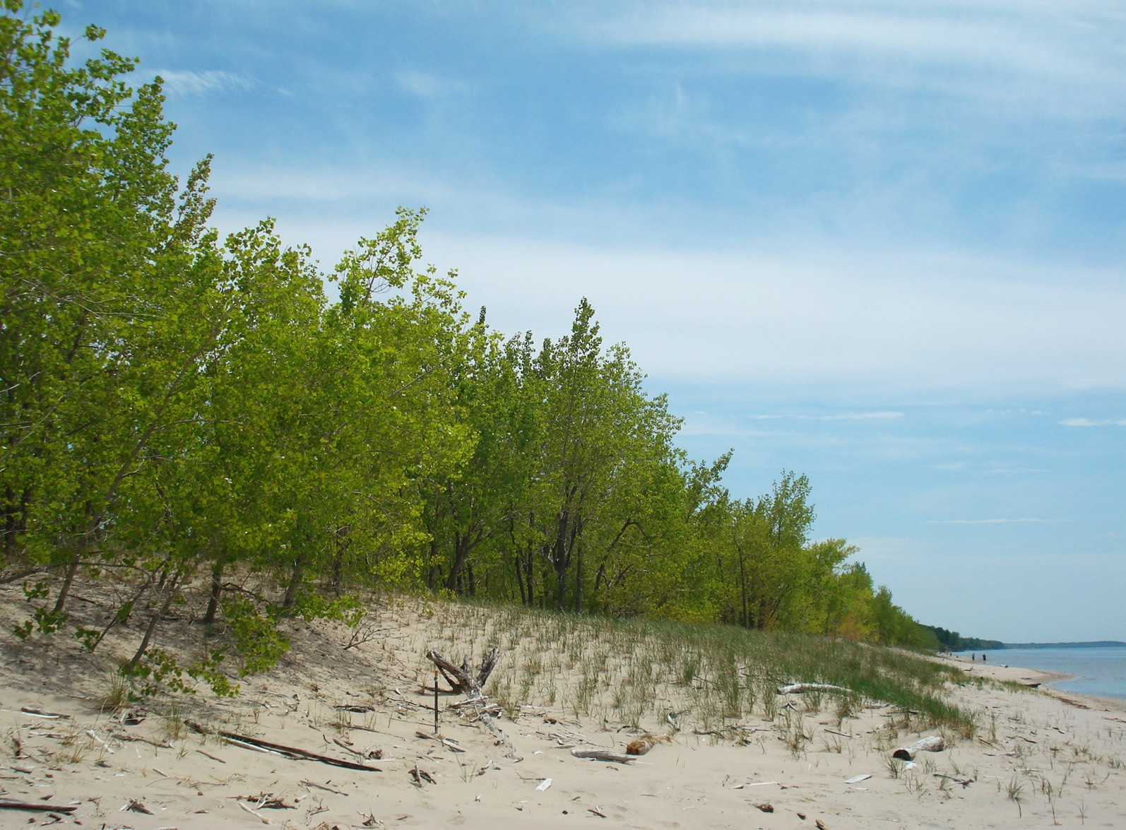 View of the foredunes along the Lake Ontario shore at Sandy Pond Beach Unique Area, New York in spring 2009.